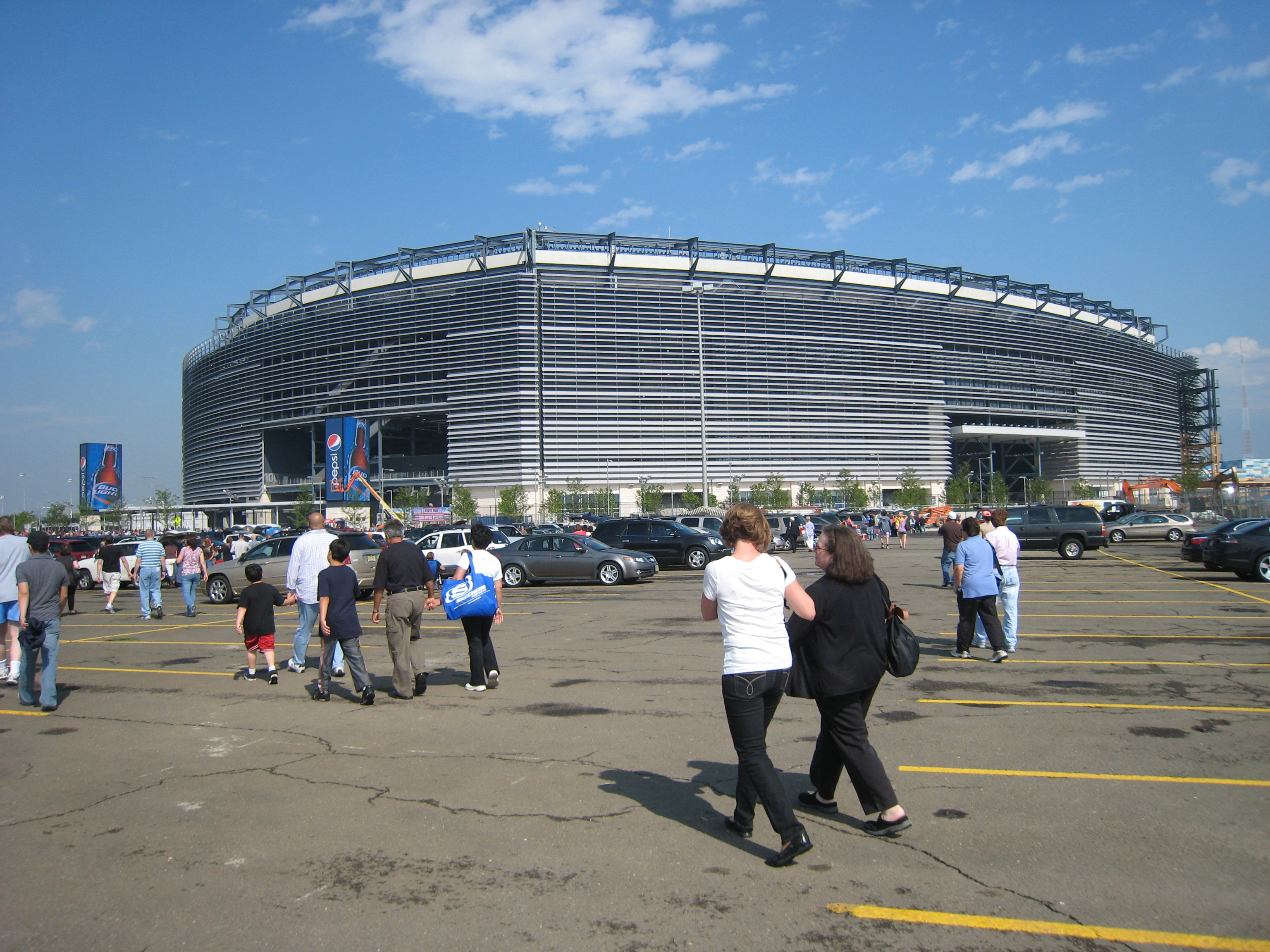 View of the MetLife Stadium from the parking lot.